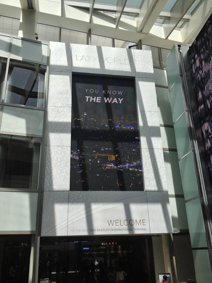 The "Bon Voyage" screen welcoming international travelers about to depart from the Tom Bradley West International Terminal.